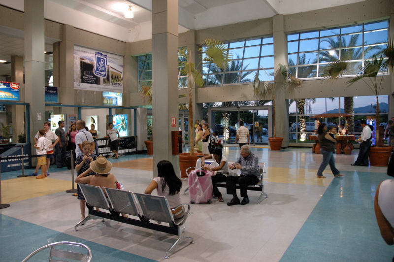 Inside terminal.